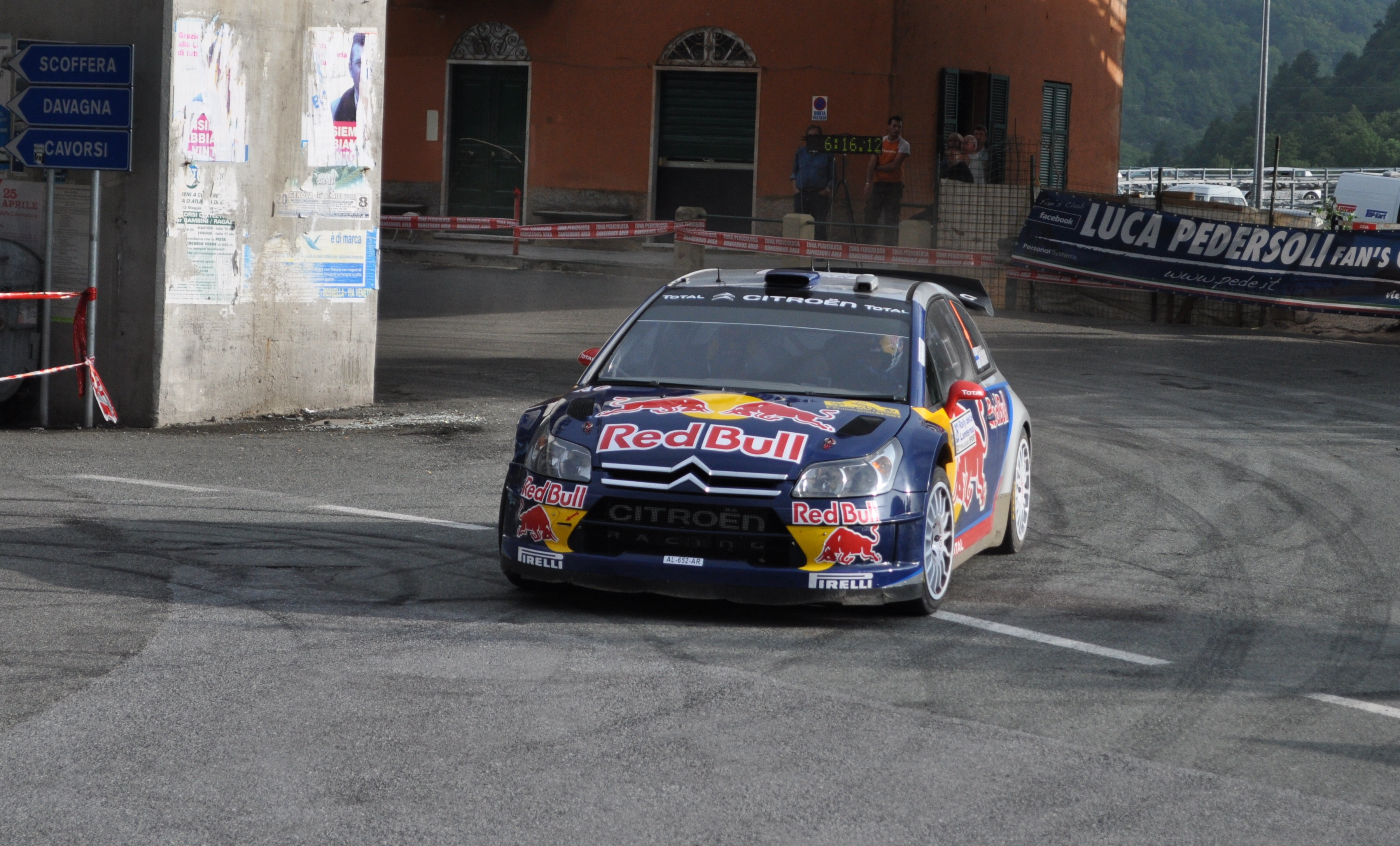 Kimi Raikkonen on 26th Rally della Lanterna (Genoa, Italy) - Citroen C4 Junior Team